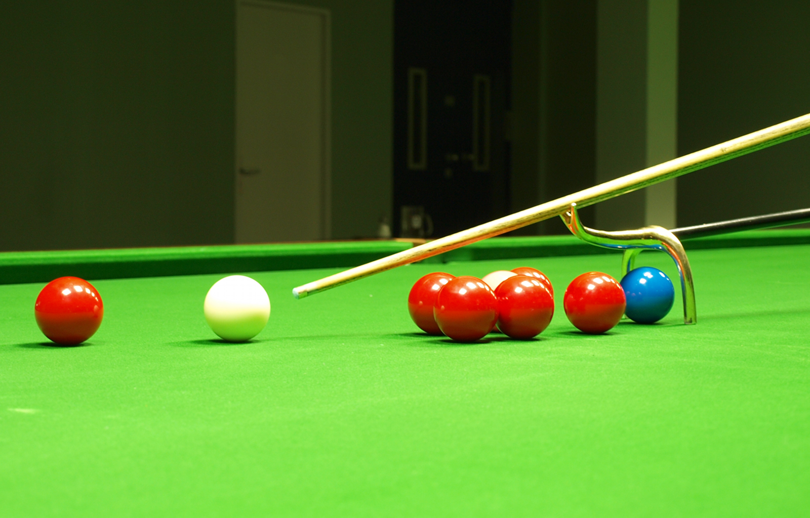 A rest or mechanical bridge called the swan for snooker and other cue sports.